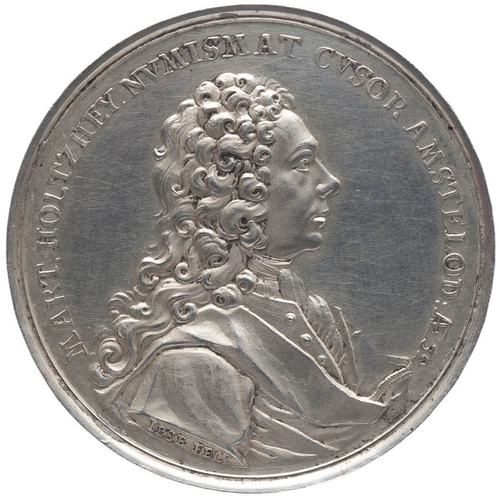 Portrait of the medallist Martinus Holtzhey, 1729. Collection Teylers Museum, Haarlem, the Netherlands.